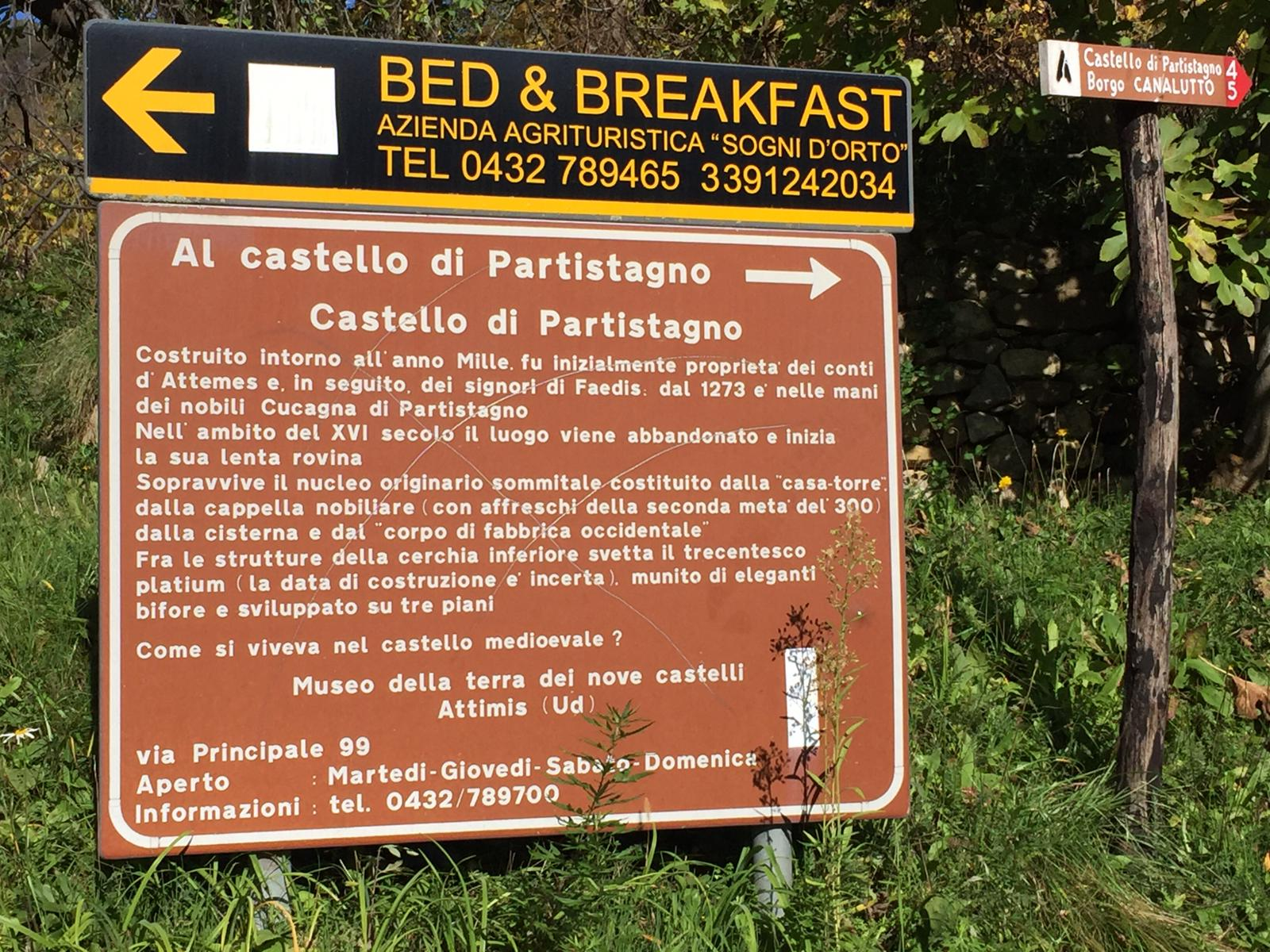 Partistagno